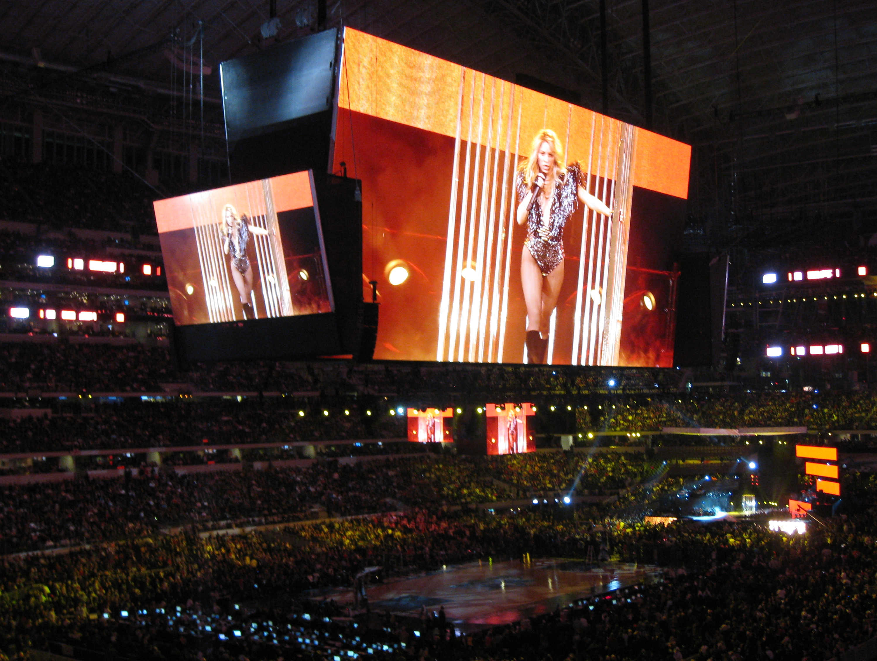 Shakira at the NBA All-Stars 2010